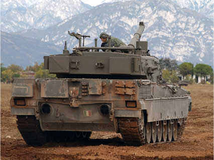 Carro armato ariete, italian army